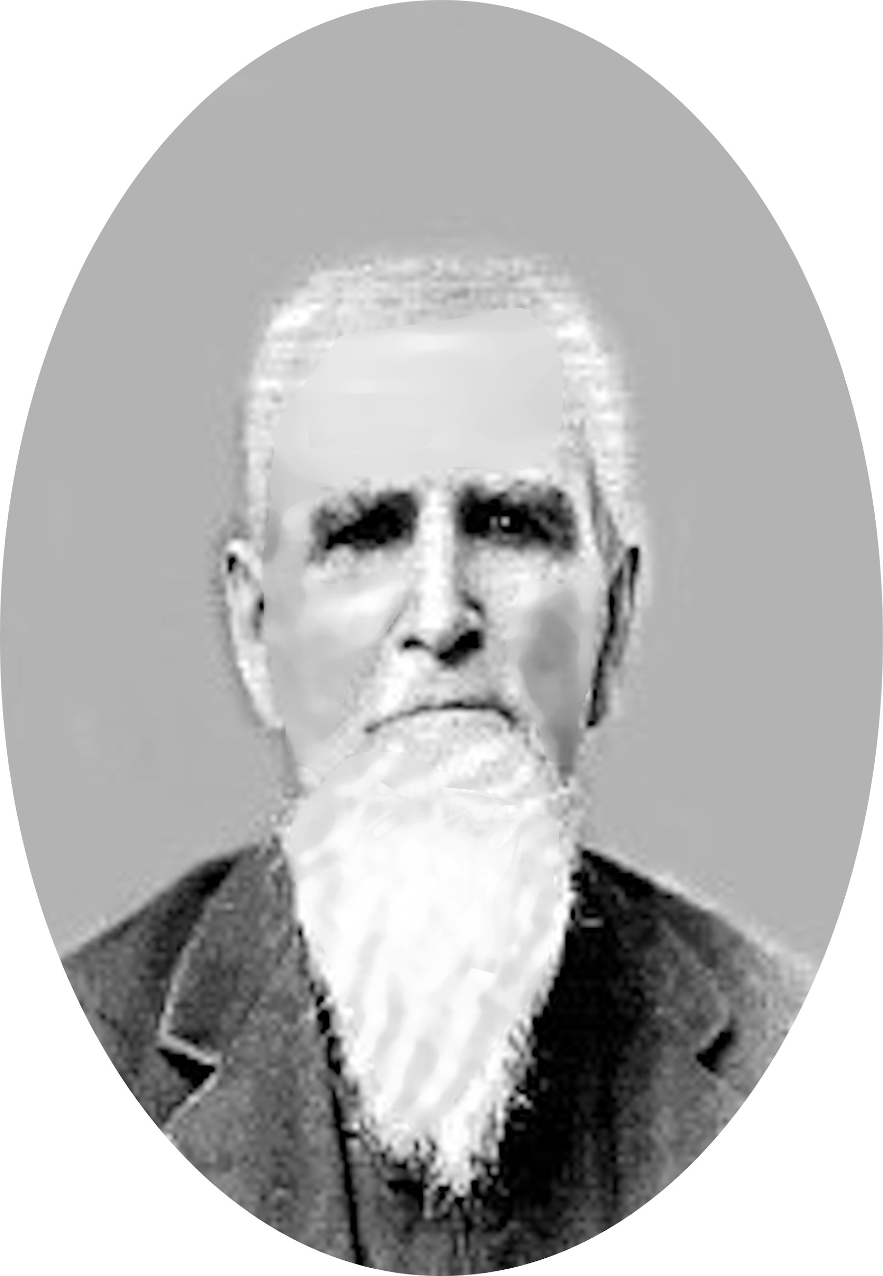 Albert Marsh MoH winner